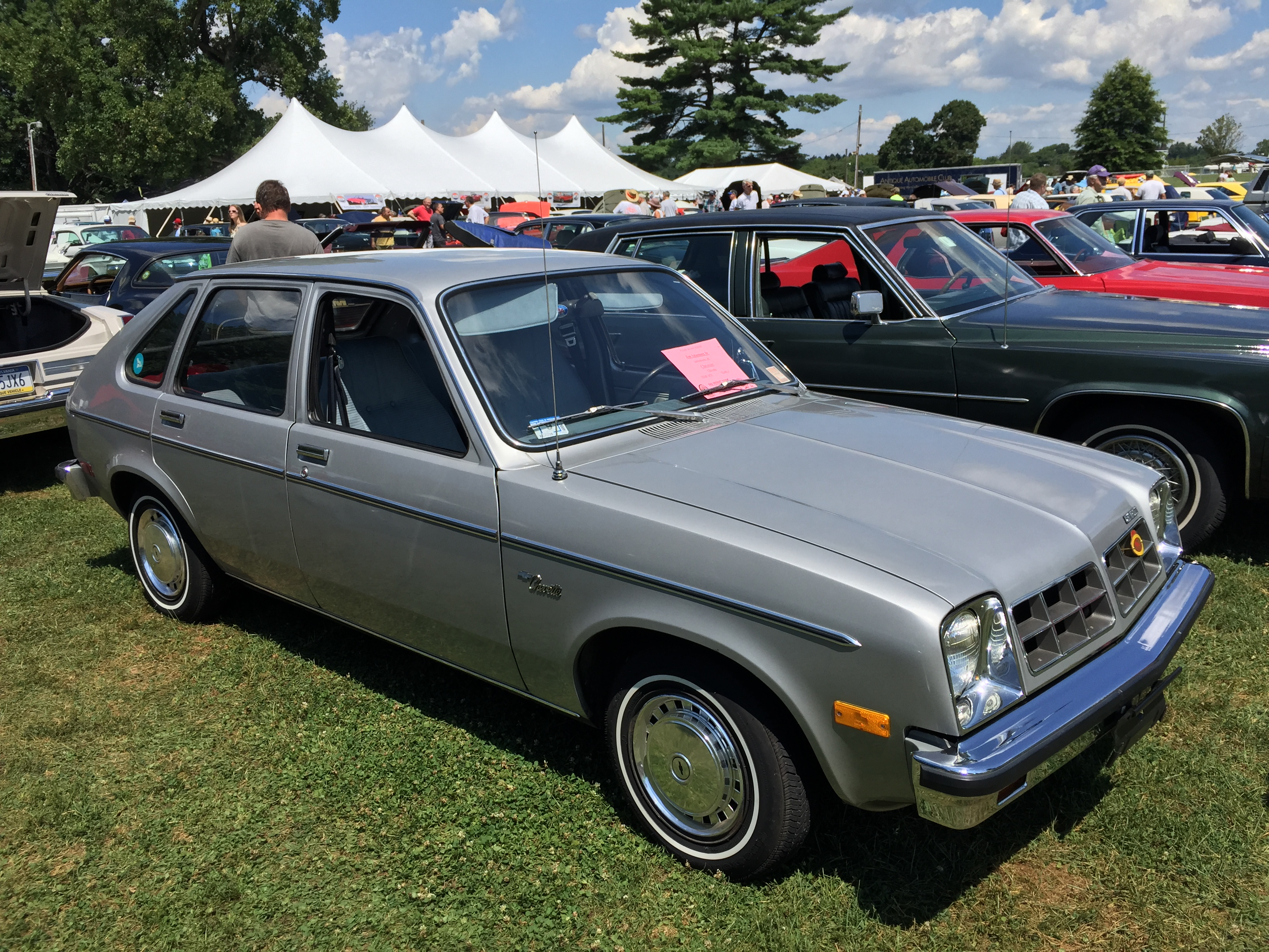 1978 Chevrolet Chevette four-door hatchback, an economy subcompact manufactured by General Motors. It is in original factory condition, without modifications or customization, and has not been butchered in any way. Picture taken at the 52nd Annual "Das Awkscht Fescht" antique car show in Macungie, Pennsylvania.